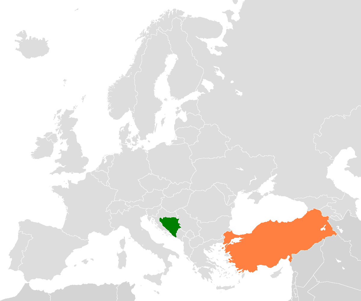 Location of Bosnia and Herzegovina and Turkey